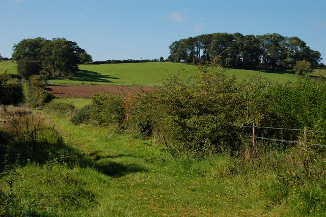 Ballygrot rath near Helen's Bay. A rath (Anglicised as "ringfort") is a fortified settlement found on a hill. Whether they were defensive or merely used to keep animals from straying is open to debate. This is the one (on the right) at Ballygrot near Helen's Bay as seen from Clandeboye Avenue. See 239086.